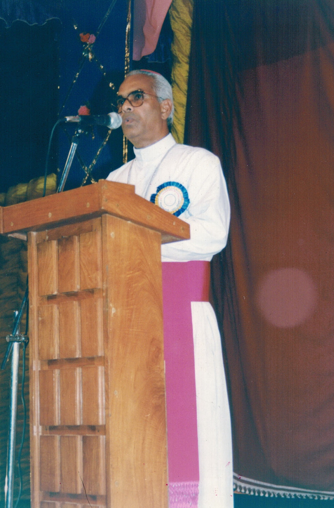 Bishop Thomas Kozhimala of Diocese of Bhagalpur